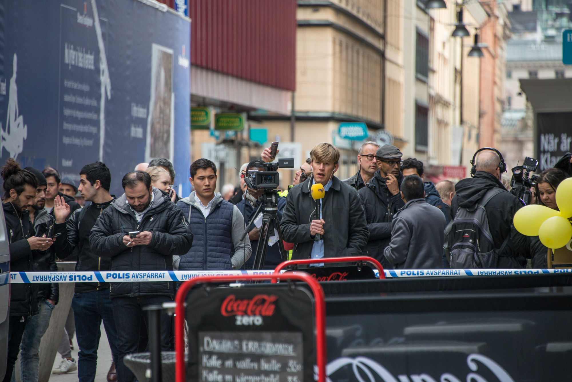 The terrorist attack in Stockholm April 7, 2017.